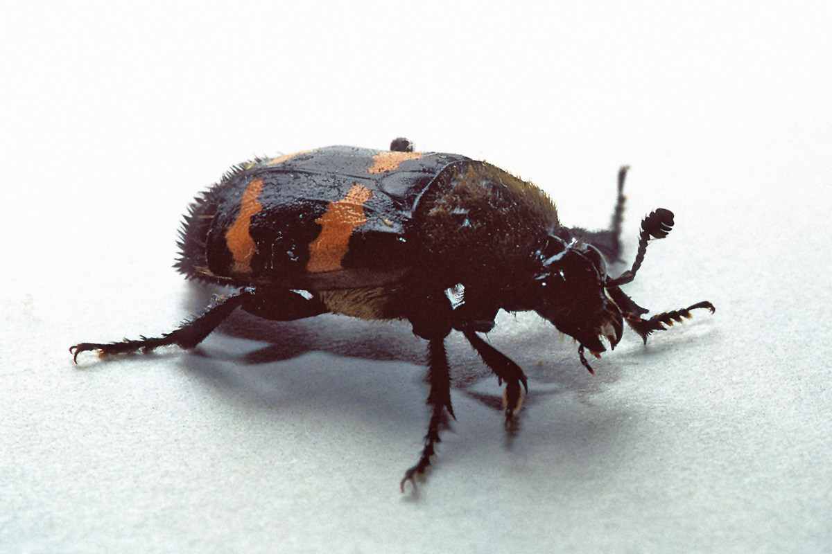 I photographed this little "undertaker" on a white background just for the effect. This Hairy Burying Beetle (Necrophorus tomentosus) gets its name from the fact that it lays its eggs in carrion and then digs underneath the dead animal until it sinks below ground. I found this one in a dead shrew that the neighbor's cat left in my garden. Much to my disgust I discovered that, in defense, this insect regurgitates its last meal when alarmed. peweeeeee! It is very nimble and hates to be photographed. It flew away shortly after I snapped only a few shots.